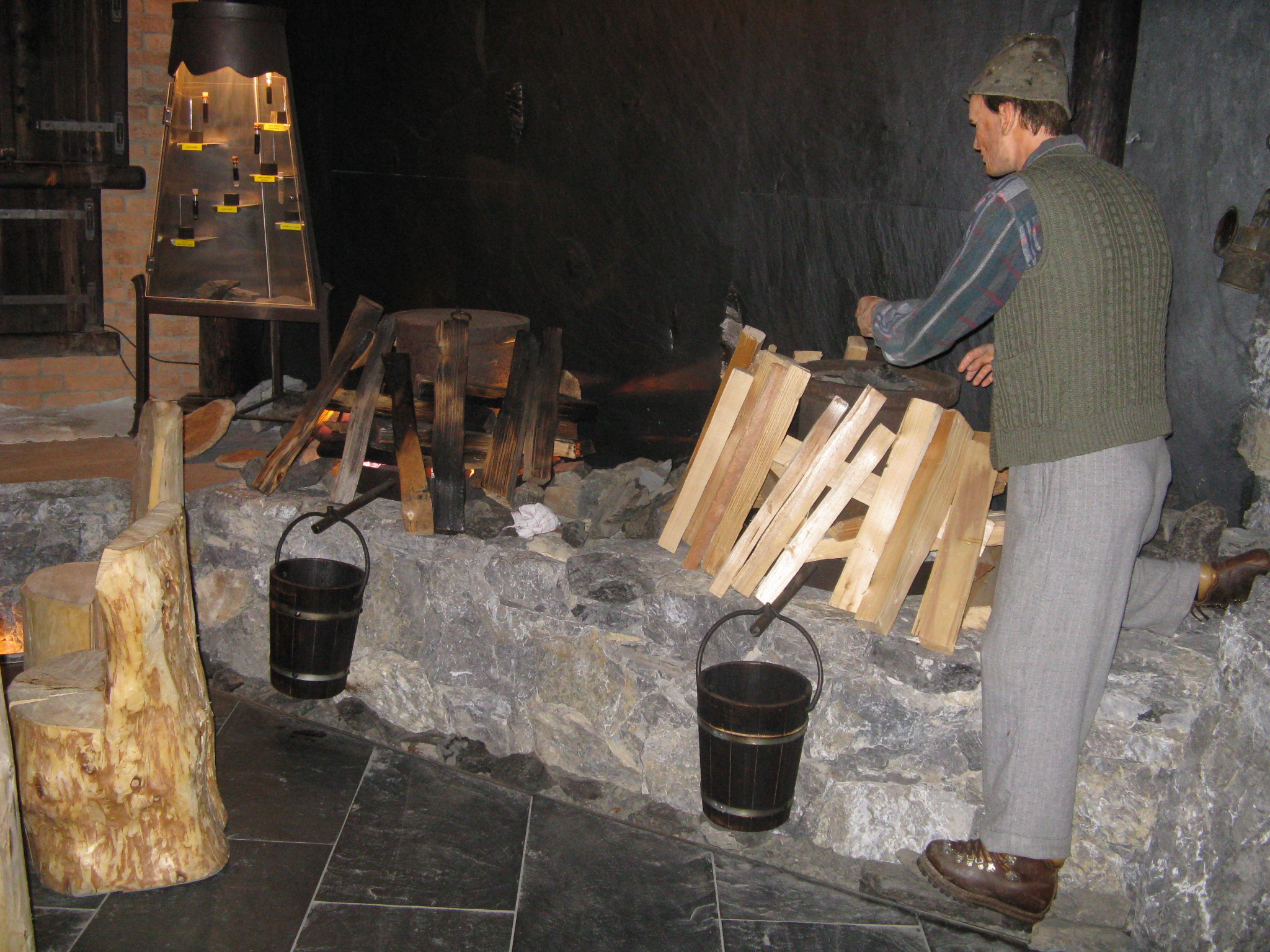 "Vitalberg" (Museum of oil shale mining), reconstruction of first production plant, 1902, Pertisau/Achensee, Tyrol/Austria